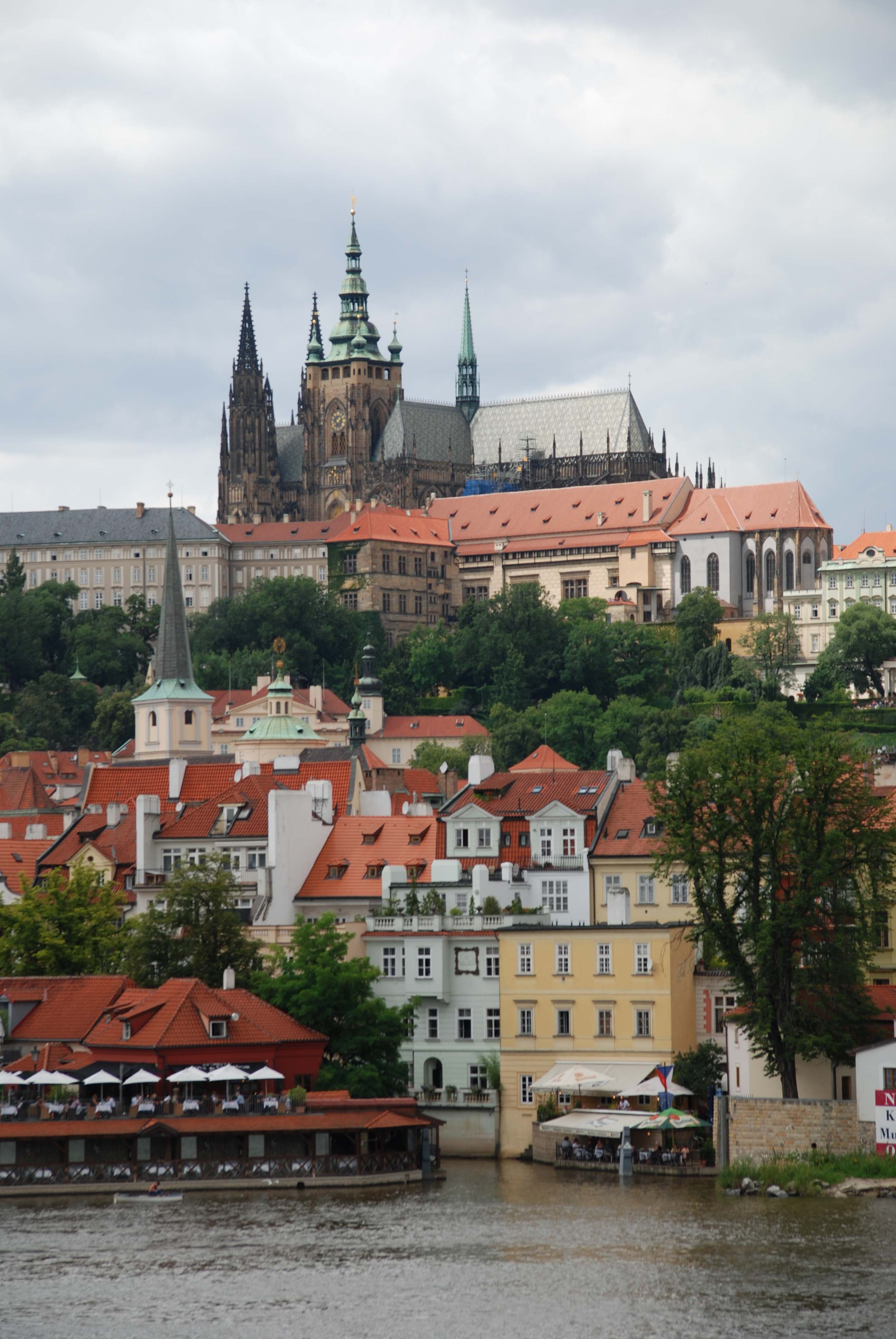 Prague Castle and the Malá Strana - district of Prague, Czech Republic; view from the Charles Bridge